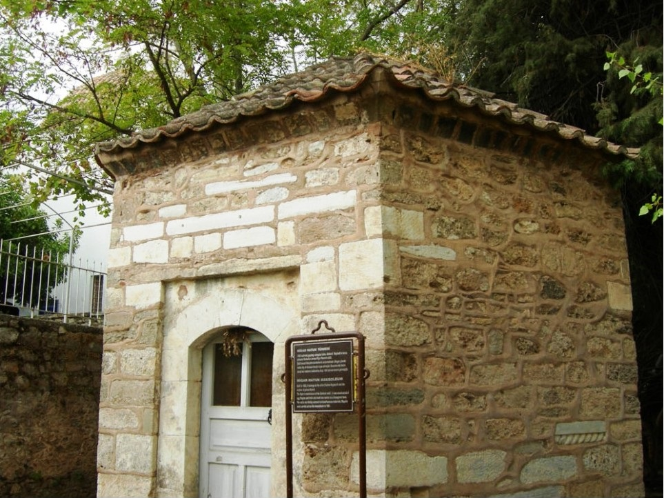 Exterior view of the mausoleum of Nigar Hatun